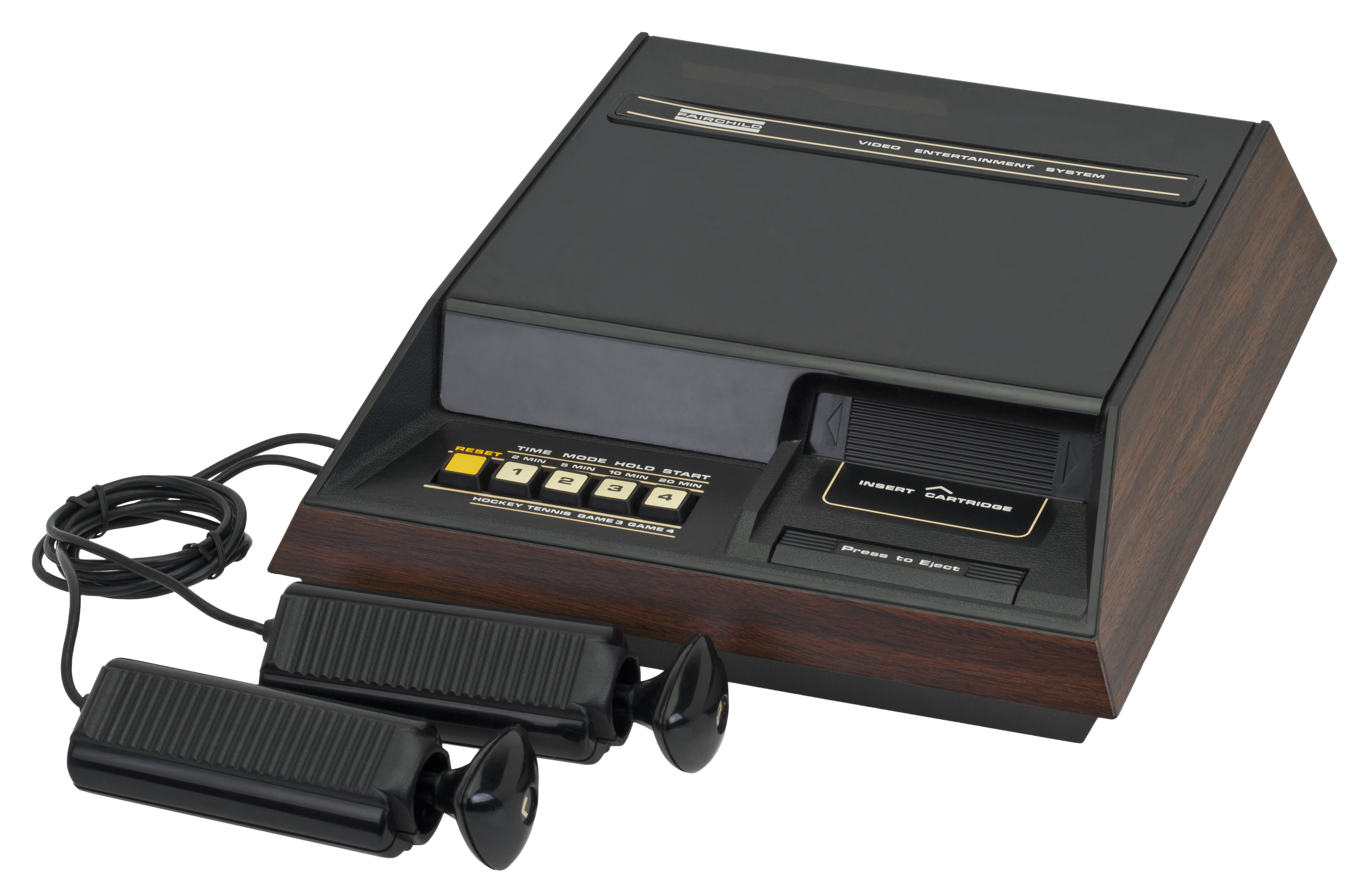 The Fairchild Channel F with hard-wired controllers. A second-generation video game console released in 1976.